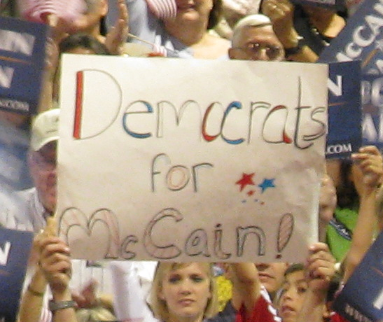 The GOP ticket, John McCain and running mate Sarah Palin, in Albuquerque, New Mexico on September 6, 2008. Todd Palin is behind teleprompter, Cindy McCain is behind Sarah Palin. Actor Robert Duvall is onstage to the left of Todd Palin.